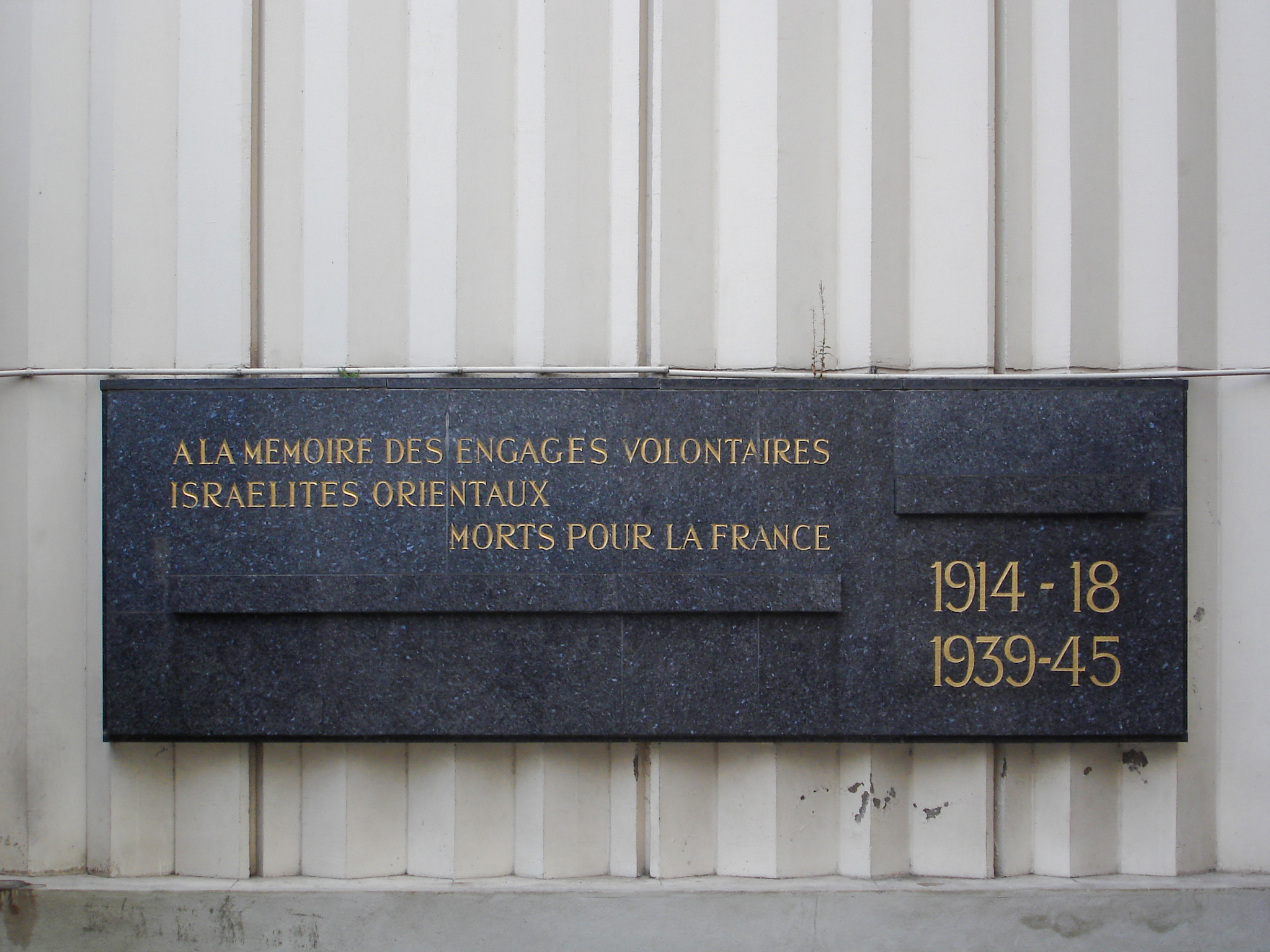 Commemorative plaque for the oriental Jews, volontary enlisted in the French army, during the two world wars, affixed in the synagogue Don Isaac Abravanel in Paris